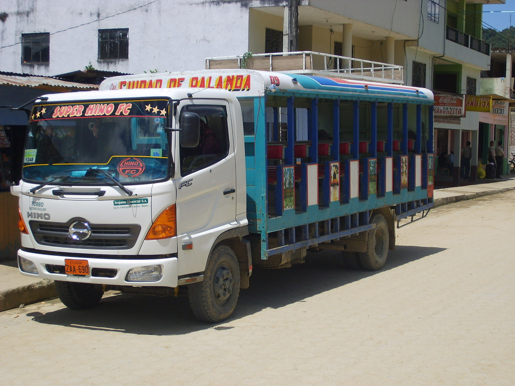 A truck converted into bus, used for public transport around Palanda in Ecuador